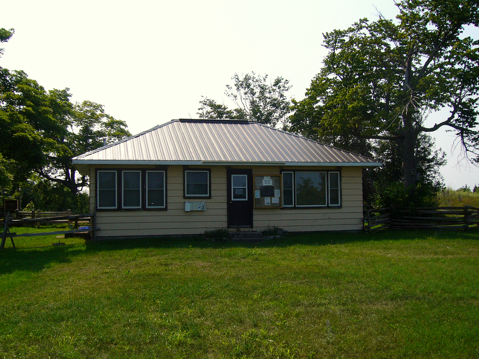 The Prince Edward Point Bird Observatory, in Prince Edward Country, Ontario, Canada